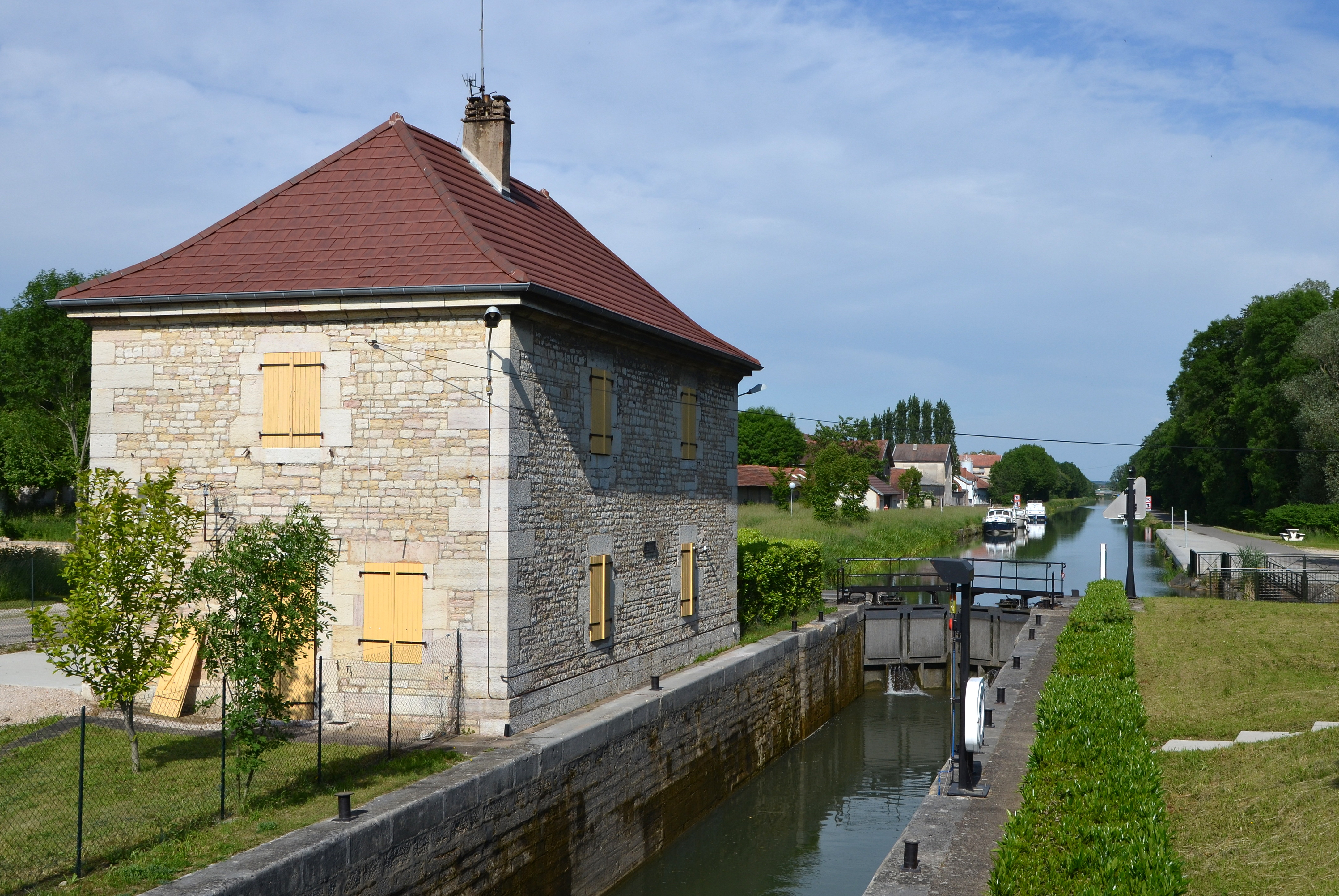 Lock house on the canal du Rhone au Rhin near the factory Solvay in Damparis, Jura Franche-Comté, France